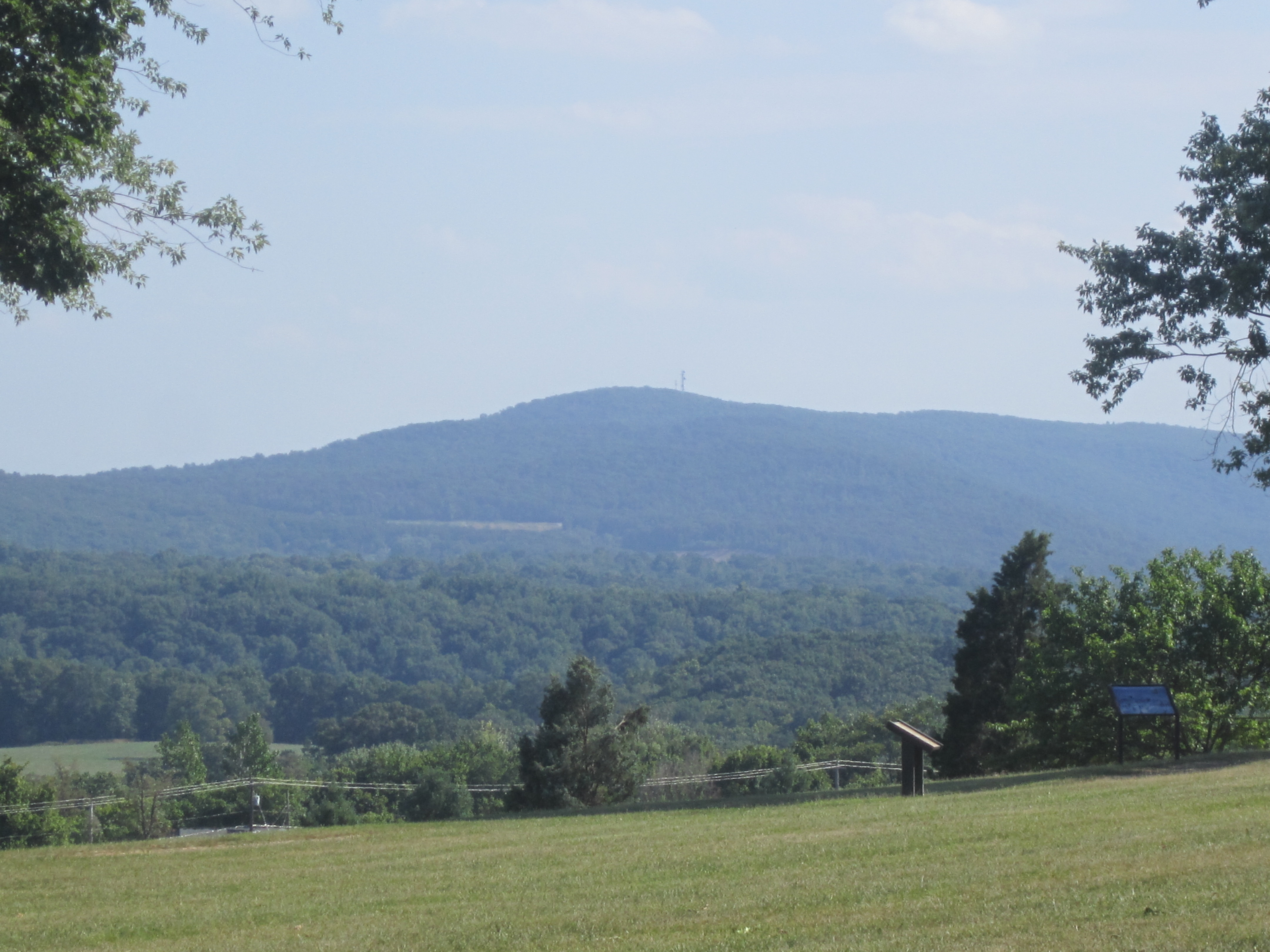 I took photo of countryside about Harpers Ferry, WV, with Canon camera.